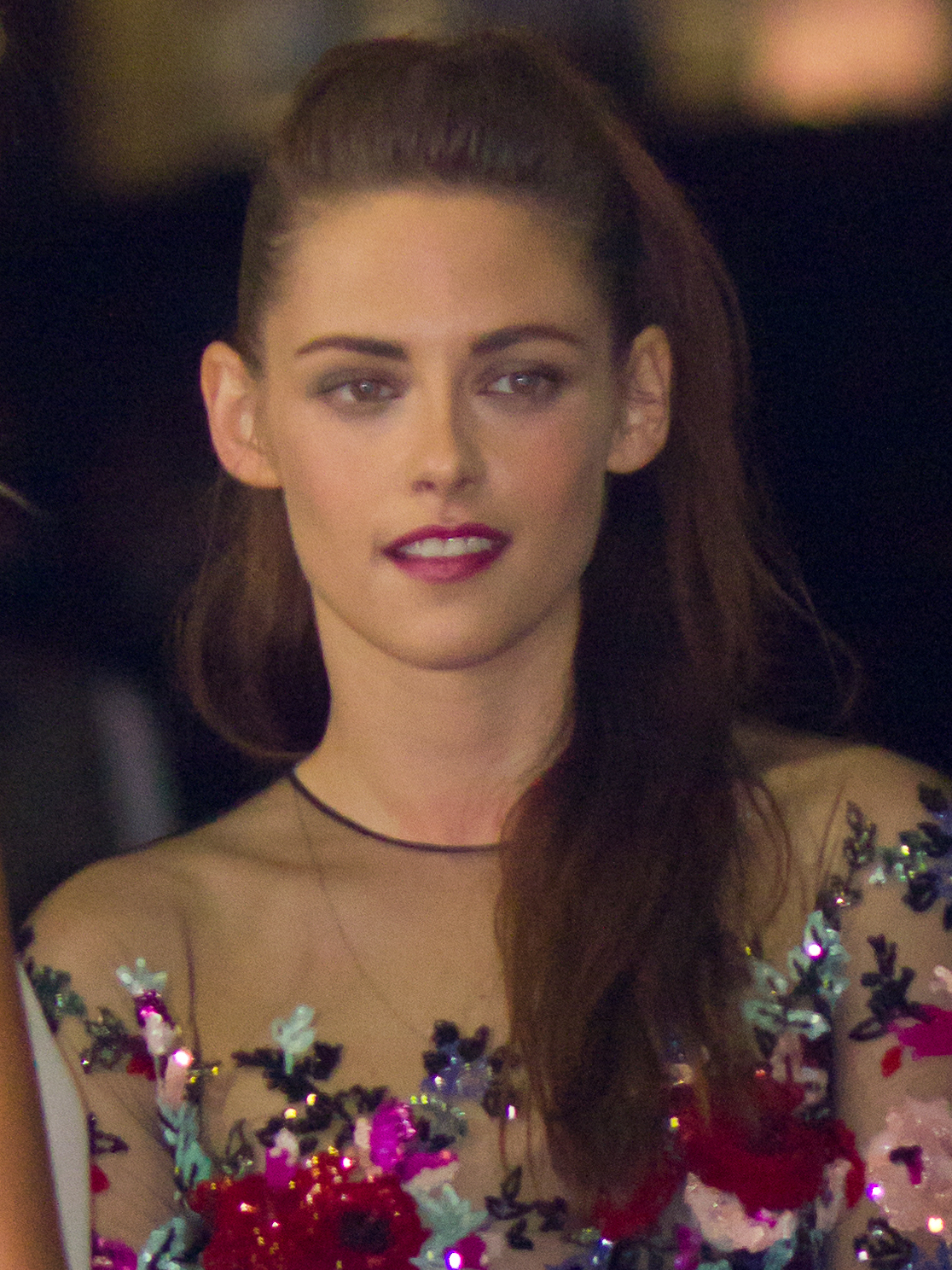 Kristen Stewart at the Toronto International Film Festival 2012.